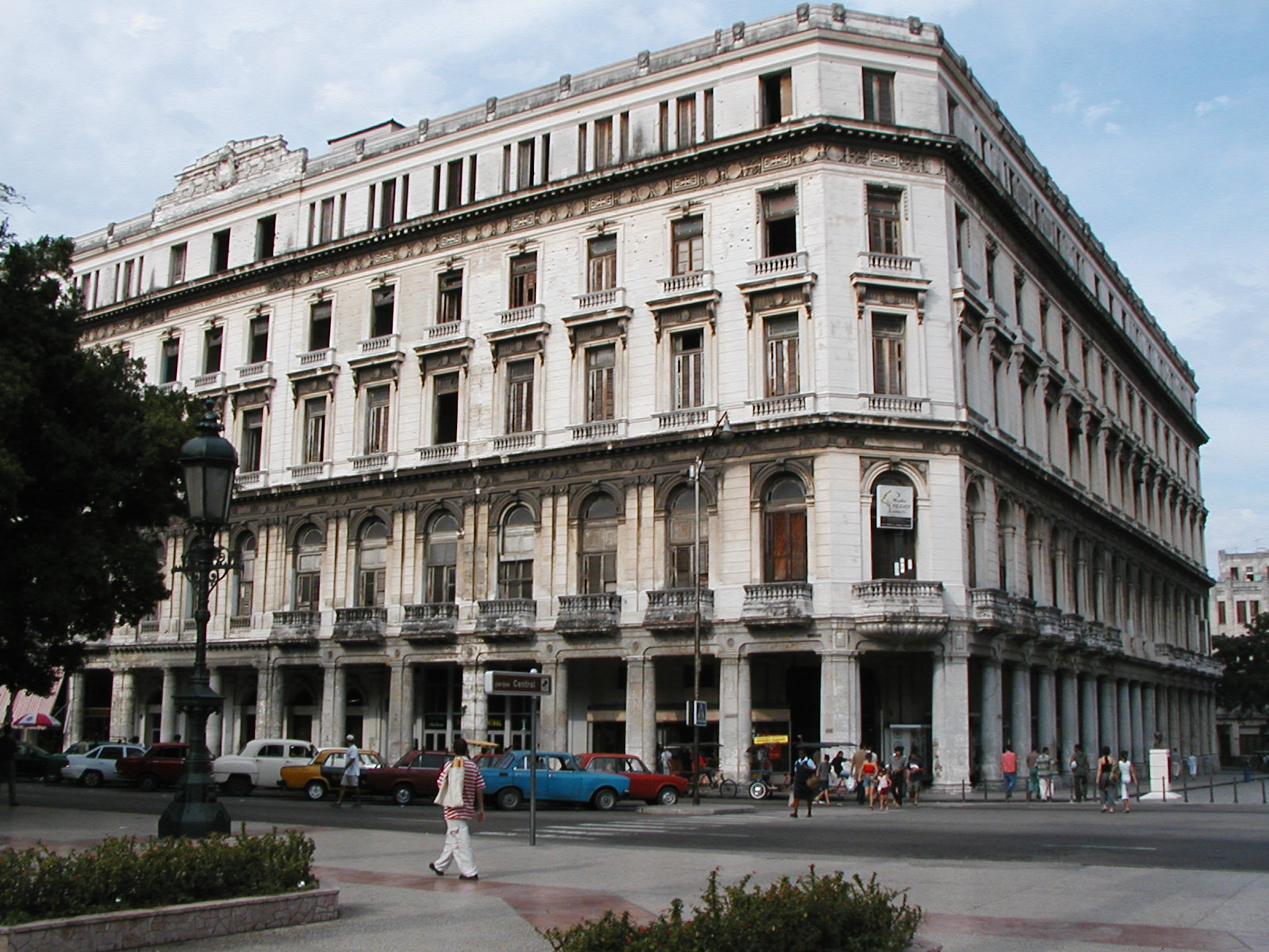 I took pic in April 2003